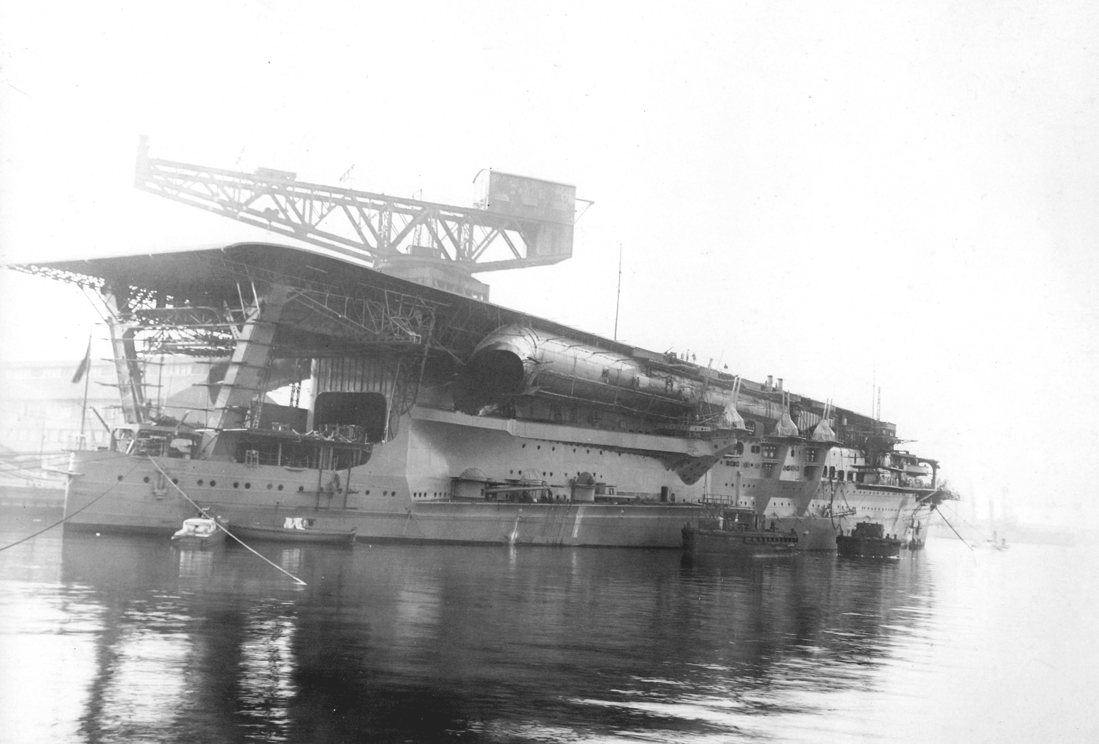 Japanese Navy Aircraft Carrier Kaga being fitted out in 1928. Note the long funnel below the flight deck and the three 8-inch guns in casemates